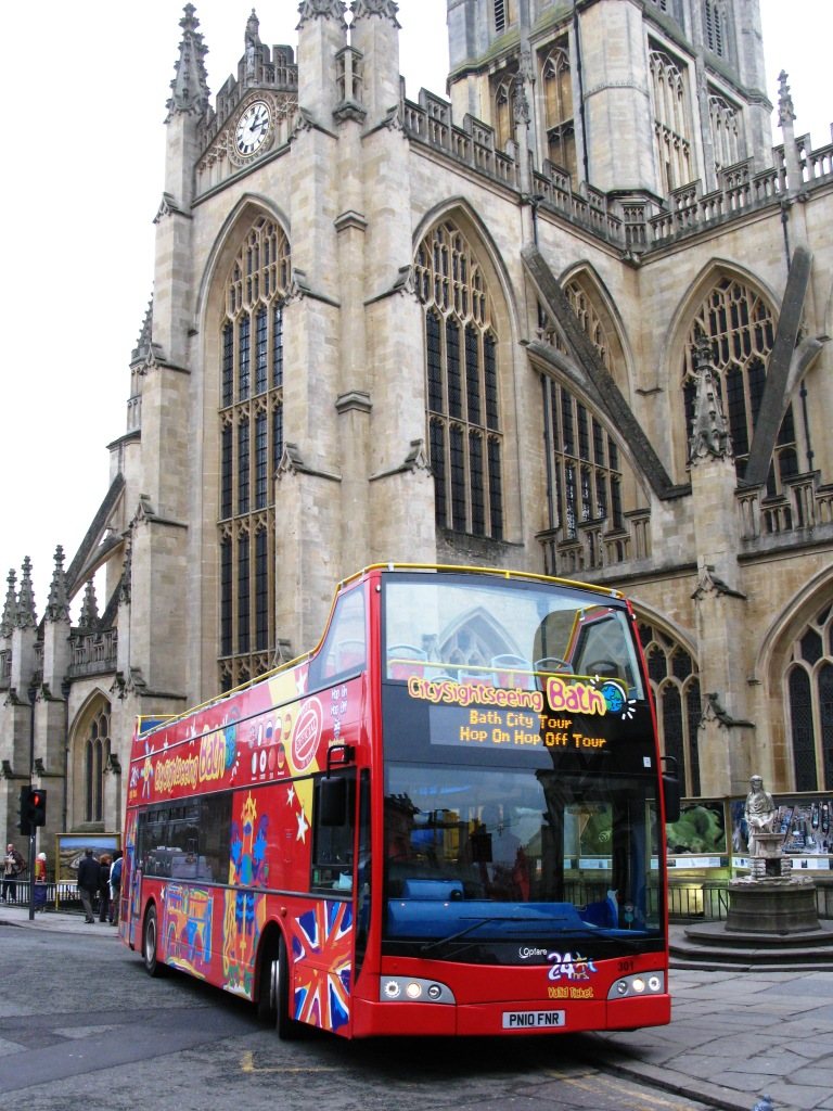 Unlike most city sightseeing tours, the Bath Tour operates all year round. PN10 FNR (Bath Bus Company's 301) stands outside Bath Abbey on New Year's Eve 2010.